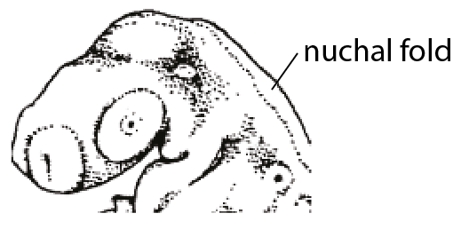 Standard Event System character depiction